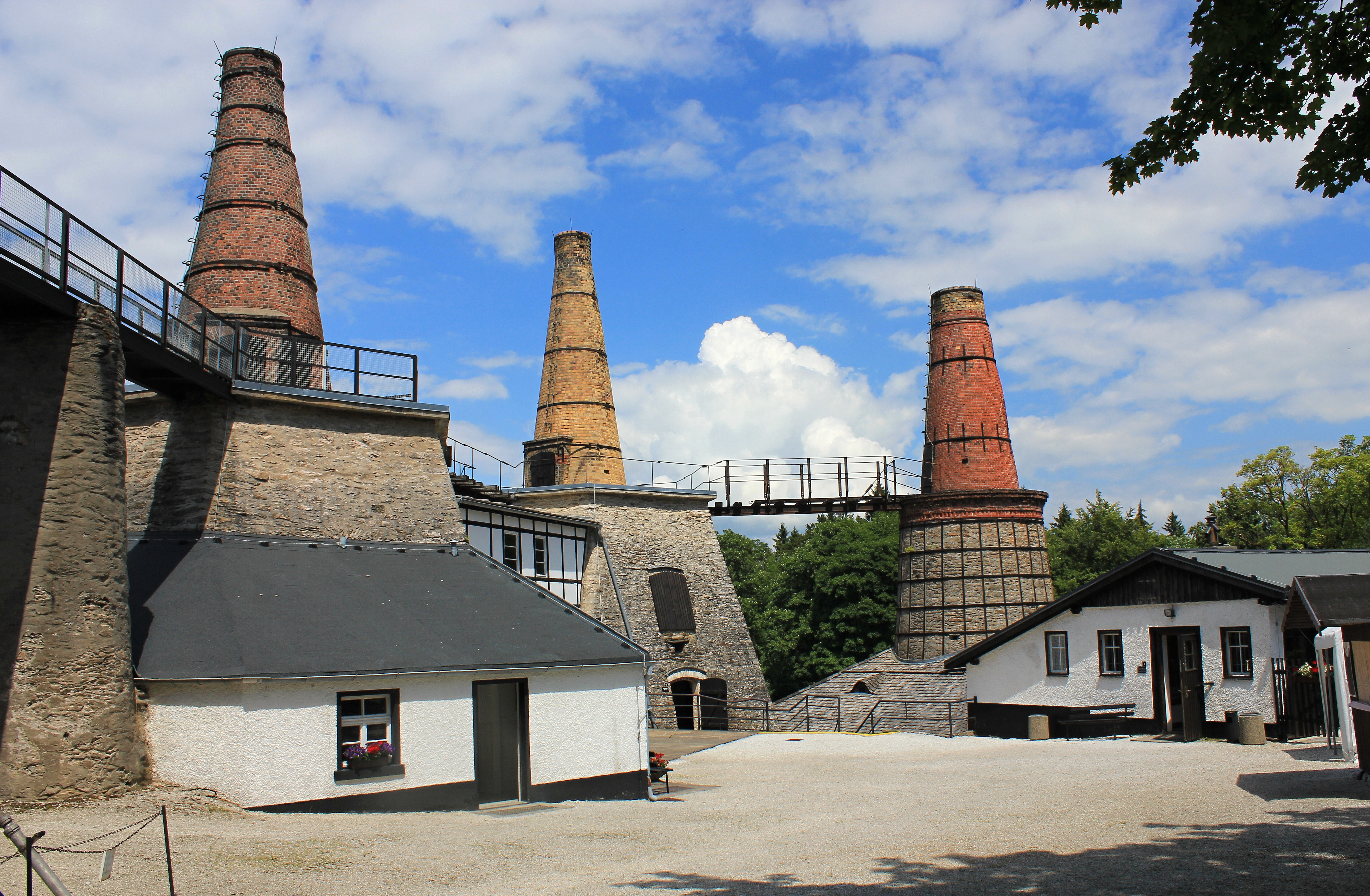 Technical Museum Lengefeld Lime Works, Saxony